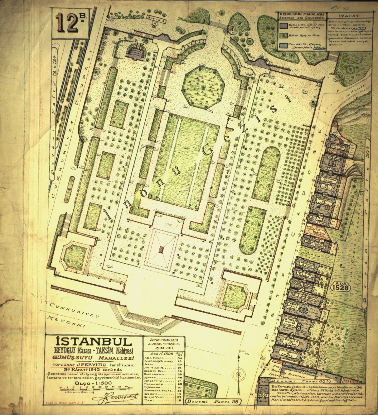 Taksim Gezi Parkı sketch, Jacques Pervititch, 1943 SALT Research, Map Archive Taksim Gezi Parkı planı, Jacques Pervititch, 1943 SALT Araştırma, Harita Arşivi